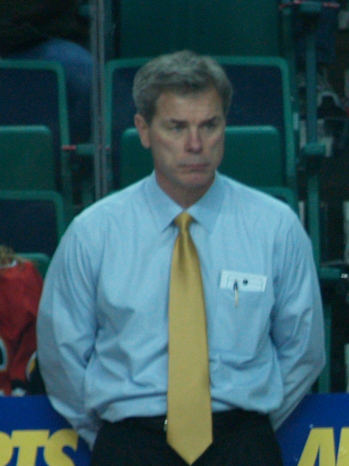 Rich Preston, Assistant Coach of the Calgary Flames